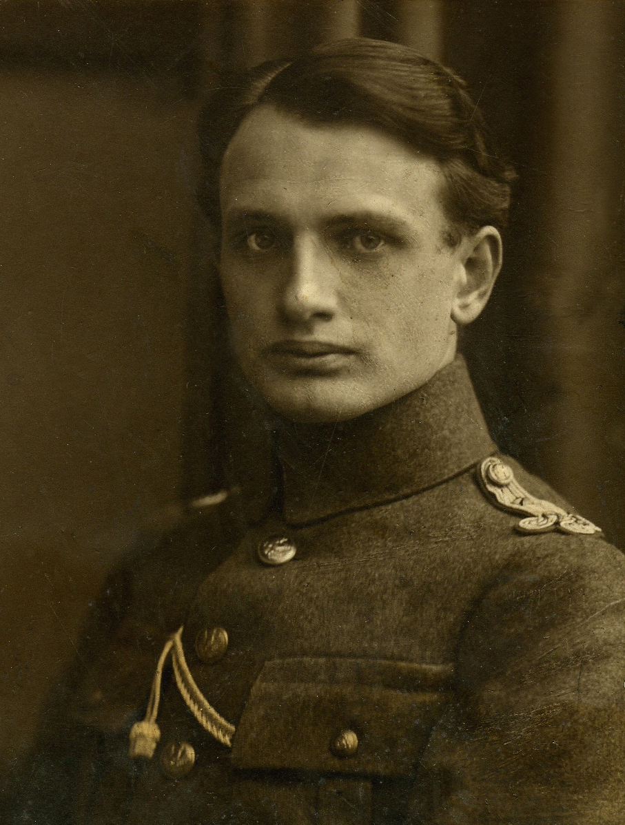 Otton Laskowski as second lieutenant in early uniform of 1919